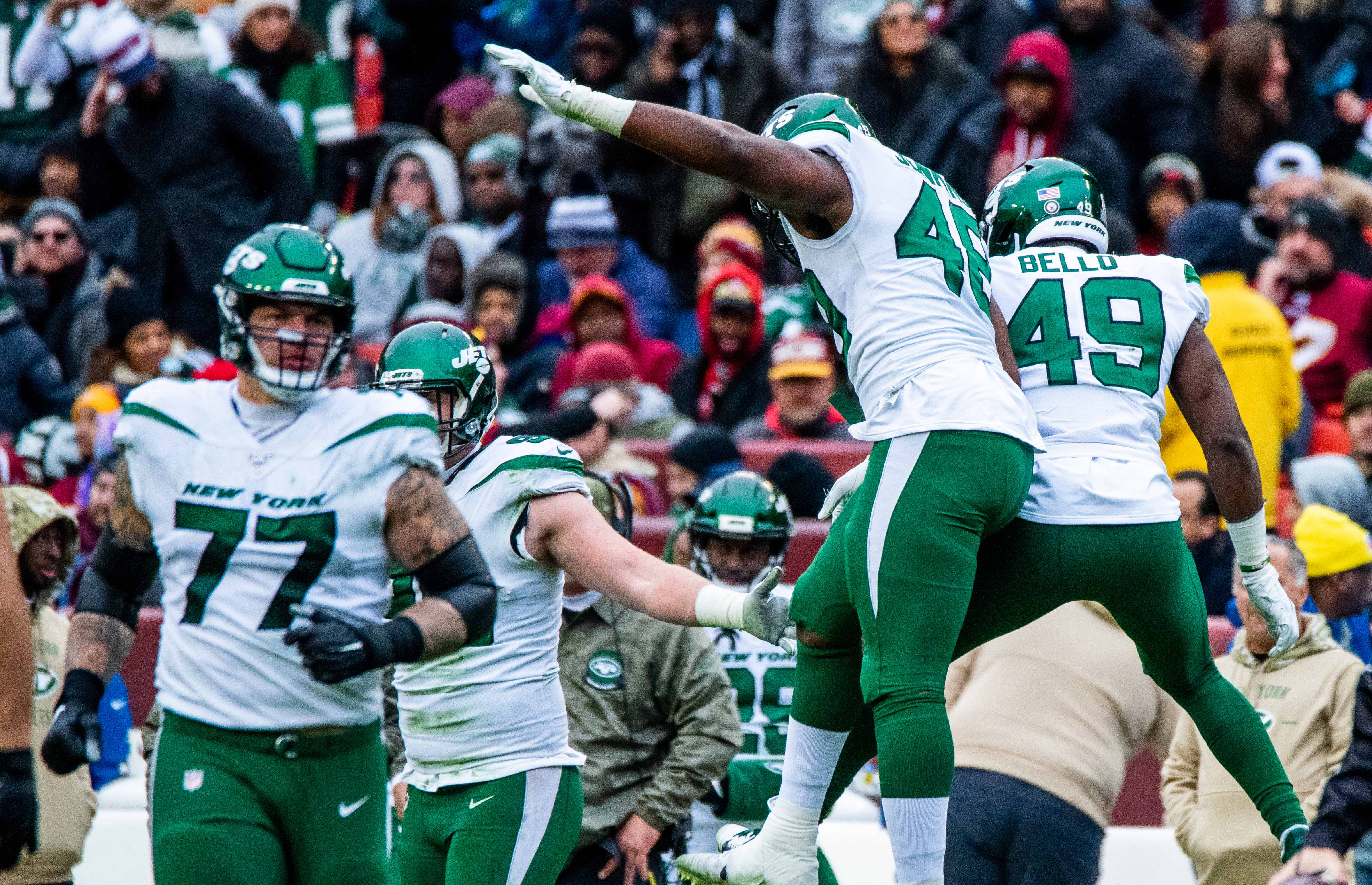 In 2019